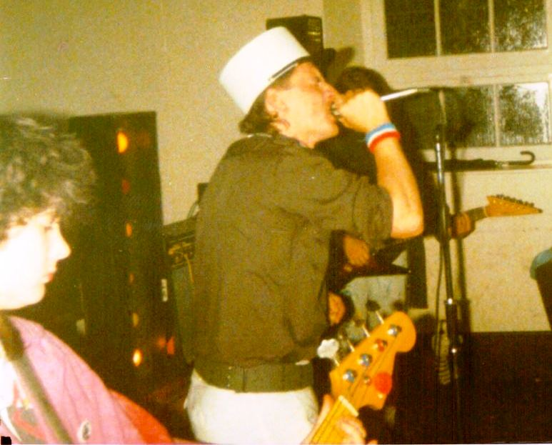 Welsh punk band Foreign Legion live in 1986